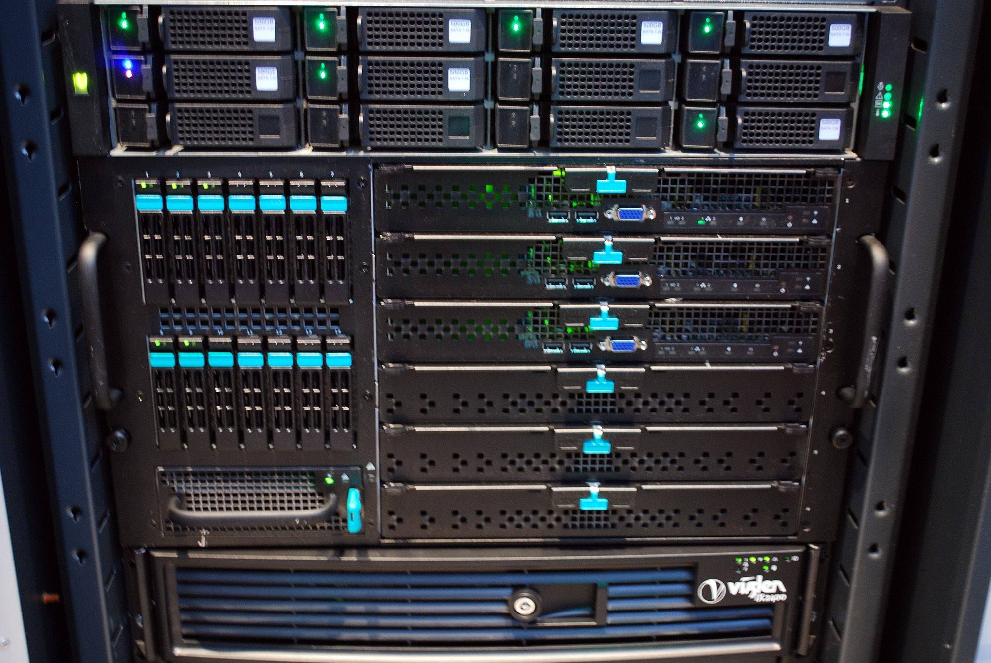 A Viglen Blade server